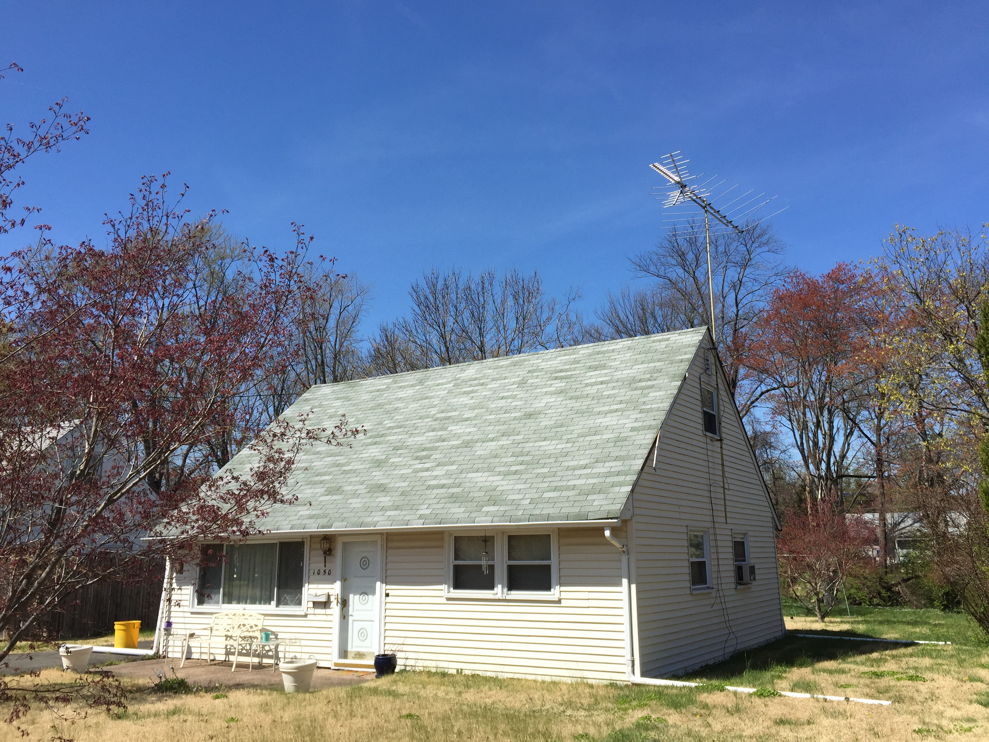 Cape Cod style house with an old television antenna along Terrace Boulevard in Ewing, New Jersey